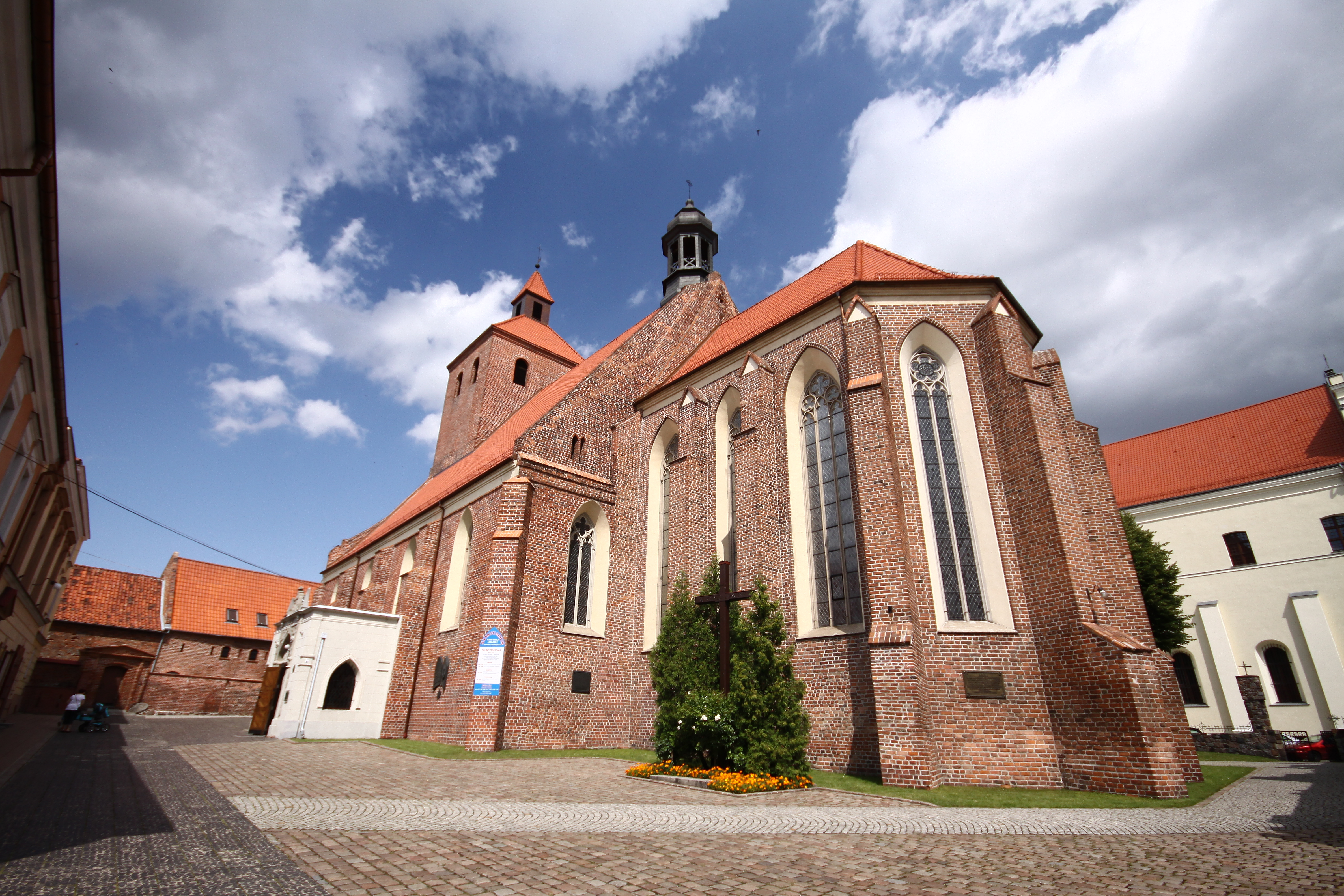 church of St. Nicholas, Grudziadz, Poland - 2009